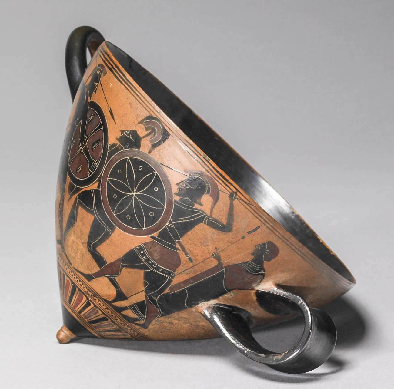 This shape of drinking-cup is called a "mastos" and resembles a woman's breast. On the front, a soldier whose nudity signifies heroic status advances against two warriors dressed in short tunics; two heralds watch from either side. On the back, a nude warrior confronts a clothed one in a similar scene. Beneath the horizontal handle stands a siren, a mythical creature with a woman's head and a bird's body, whose powers included knowledge of the outcome of battles.